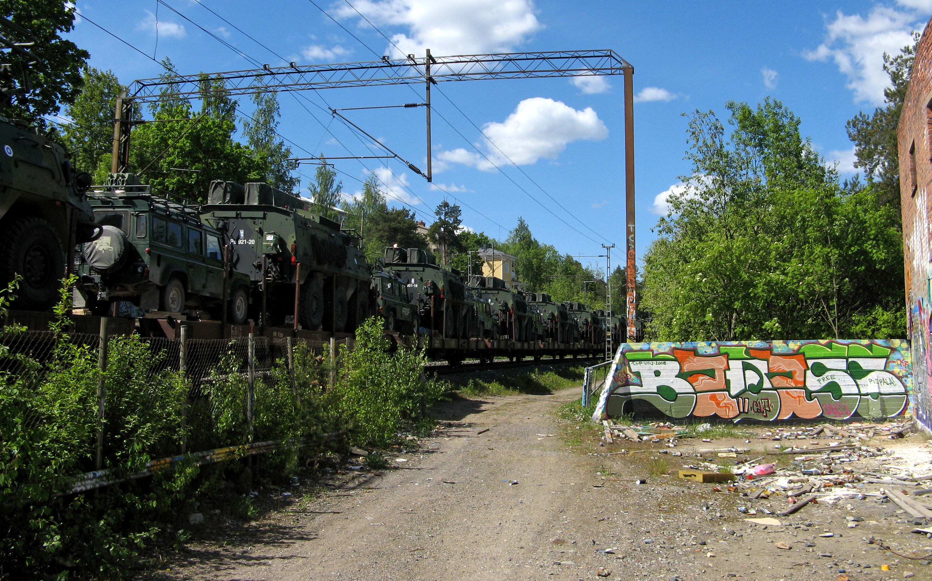 Finnish military vehicles on a train in Santalahti, Tampere, Finland